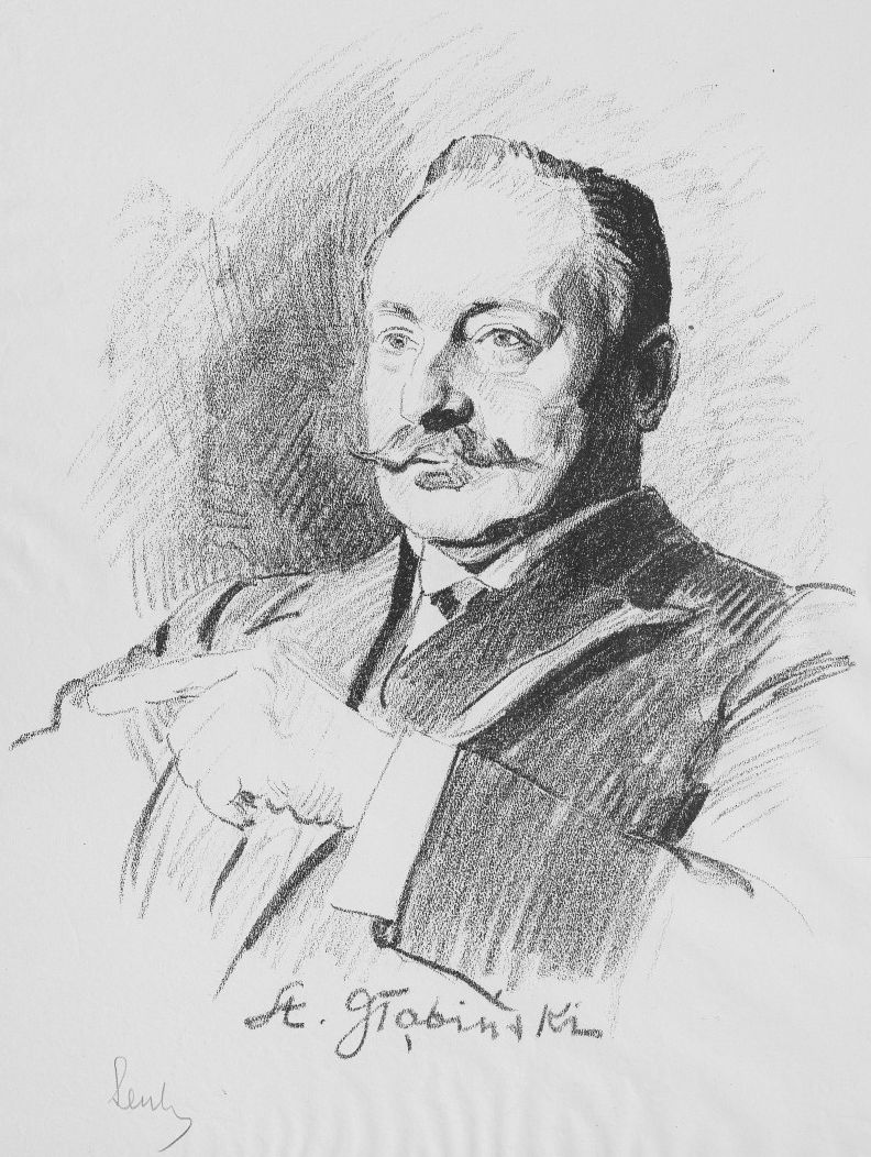 Stanisław Głąbiński's portrait by S. Lentz.